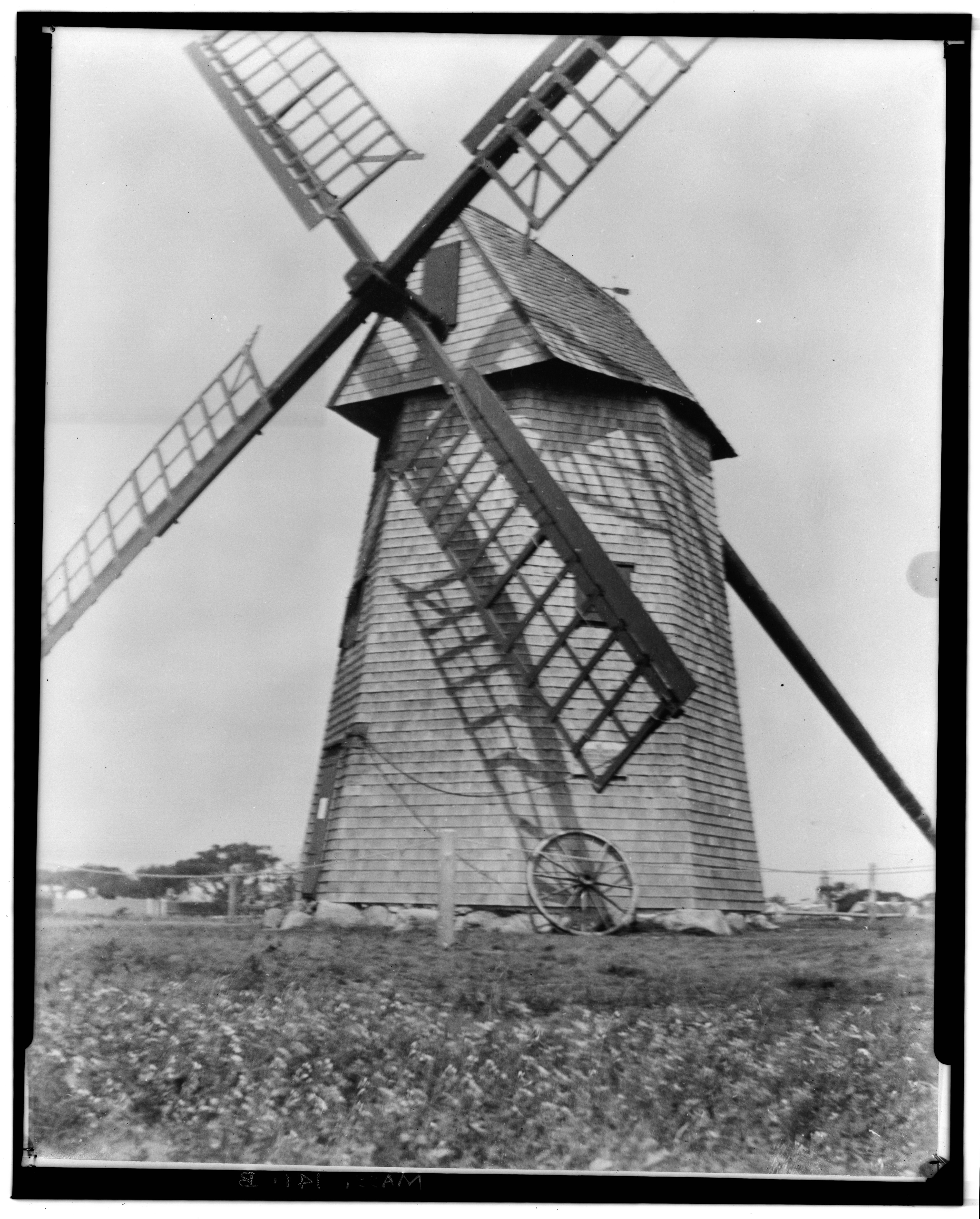 Old Windmill, North Mill & South Mill Streets, Nantucket, Nantucket, MA